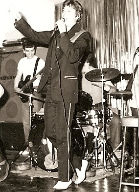 SHAKIN' STEVENS AND THE SUNSETS LIVE IN TILBURY. Holland 1976 SHAKIN' STEVENS AND THE SUNSETS LIVE IN ENGLAND 1975